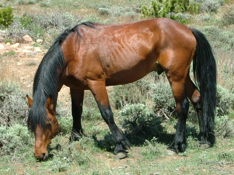 A feral or "wild" horse in 2009 at the Pryor Mountains Wild Horse Range in Montana in the United States. This image depicts the classic features of this animal's unique genetic makeup. DNA testing has shown that the Pryor Mountains herd is directly descended from the Spanish barb horse, brought to North America in the mid 1600s A.D. by the Spanish. The horse is generally 13-15 hands high, and weigh 700 to 800 pounds (more if raised in captivity). The majority of Pryor Mountains horses are dun or grullo in color, but some are red or blue roan, bay, black, chestnut, and (rarelhy) buckskin in color. They minimally express calico paints. Pryor Mountains horses look much like primitive horses, with a dorsal stripe down the back, stripes on the withers, and tiger stripes on the legs. Most have just five lumbar vertebrae (an anatomical feature distinctive of primitive horses), although some have a fifth and sixth vertebrae which are fused. Pryor Mountains horses have medium-length necks, long manes and tails, convex or straight heads, wide-set eyes, and hooked ears. The forehead is broad, and tapers well to the muzzle. The teeth meet evenly, upper lip is usually longer than the lower, and the nostrils are small and crescent shaped. The horses have sloped croups and low tail-sets, the shoulders are long and sloping, the withers are prominent, and the chest is medium to narrow in width. The hooves are hard and ample, and the horse exhibits the classic paso gait.